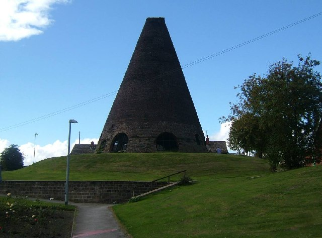 70ft-high glassworks cone at Catcliffe, South Yorkshire, England. Built in 1740 for William Fenney.